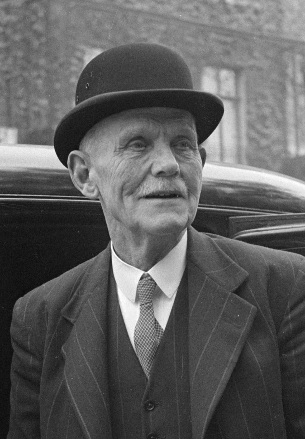 Portrait of engineer FF Warren, the engineer who designed the drums for the lottery tickets of the Irish Hospitals Sweepstake